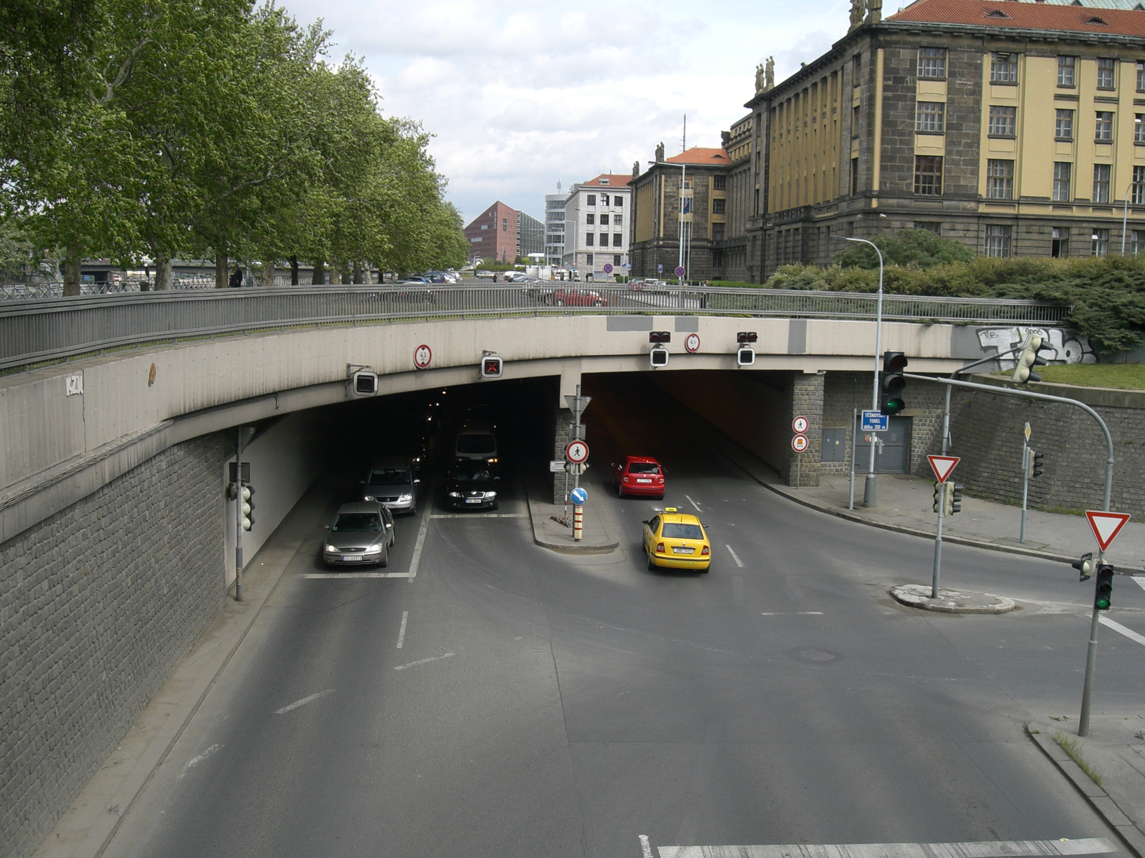 Těšnov tunnel in Prague, Prague, Czech Republic.